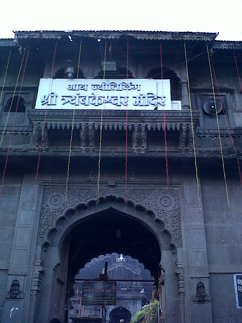 Trimbakweshwar Temple Entrance